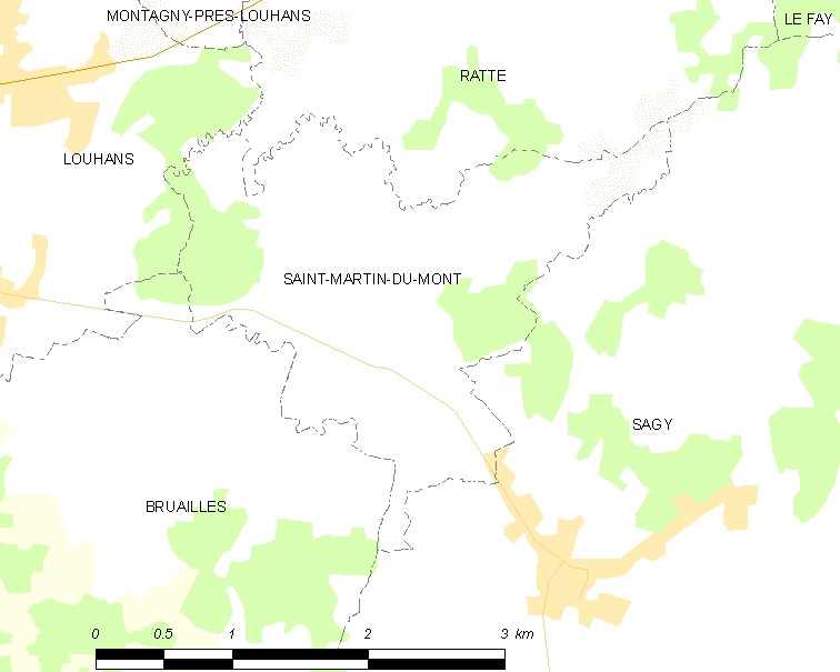 Map of French municipality